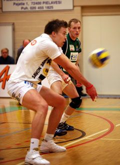 Finland volleyball player Urpo Sivula receiving serve.